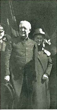 General Edward Higgins of the Salvation Army